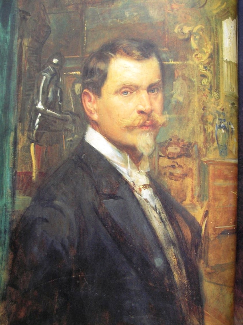 Selfportrait